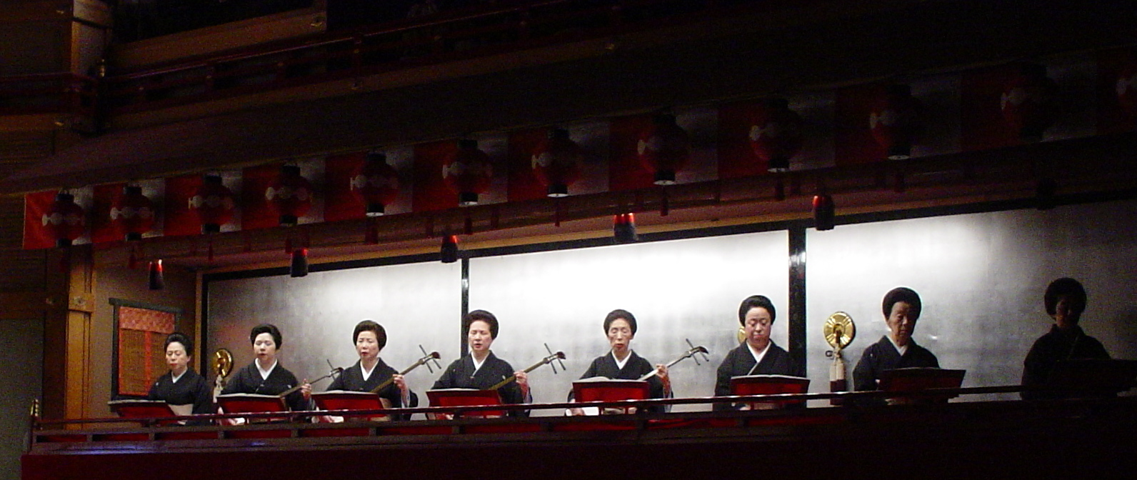 Shamisen at Miyako Odori